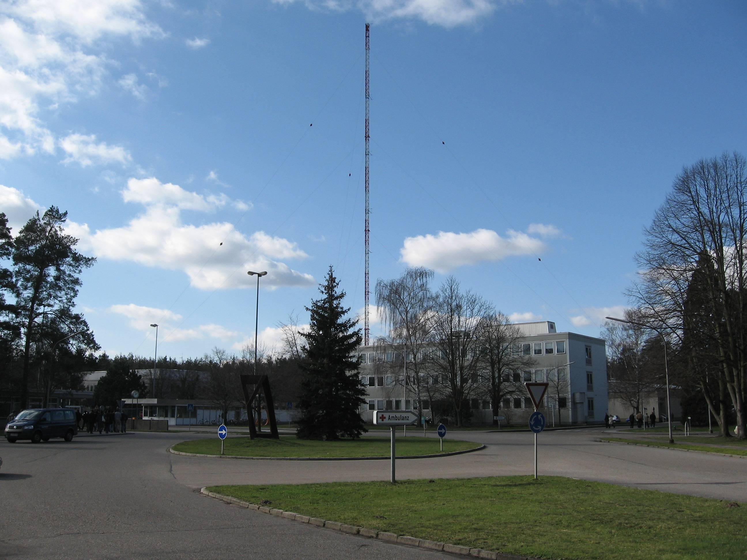 The picture shows the Forschungszentrum Karlsruhe, a German science center, member of the Helmholtz-Gemeinschaft. This picture: The main entrance and the tall tower (a measurement station)